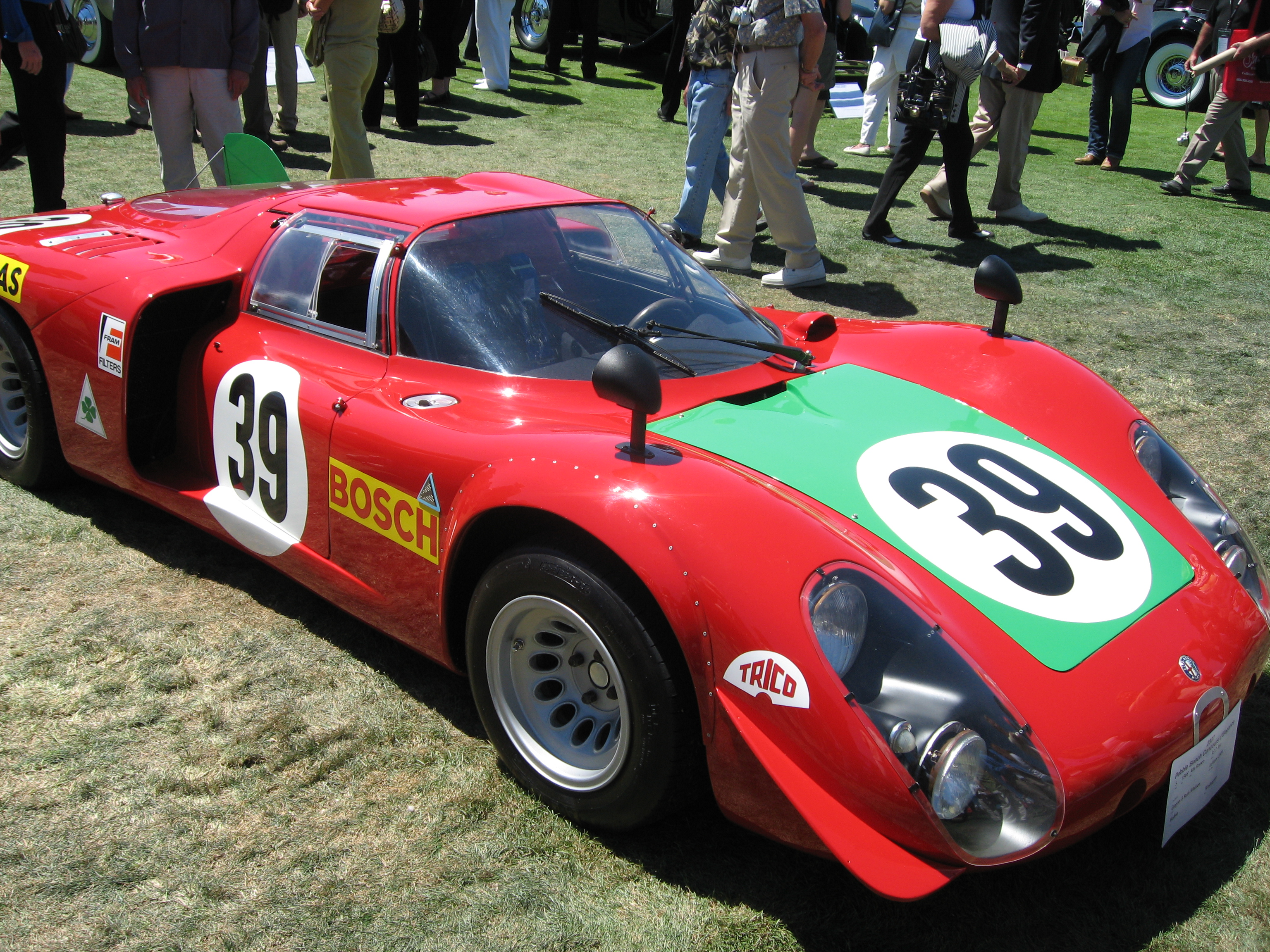 1968 Alfa Romeo 33/2 Tipo LeMans Coupe at Pebble Beach Concours d'Elegance